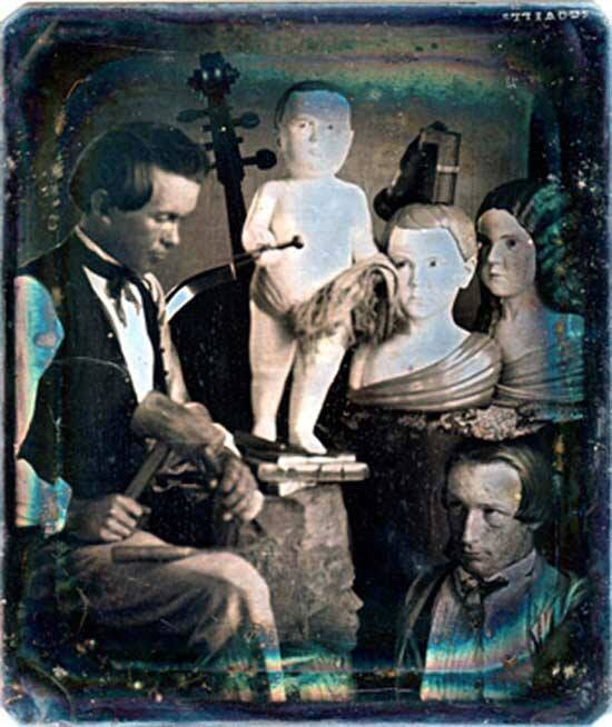 The American folk sculptor Asa Ames (1823-1851) shown working on a sculpture surrounded by other sculptures, c. 1849-51.